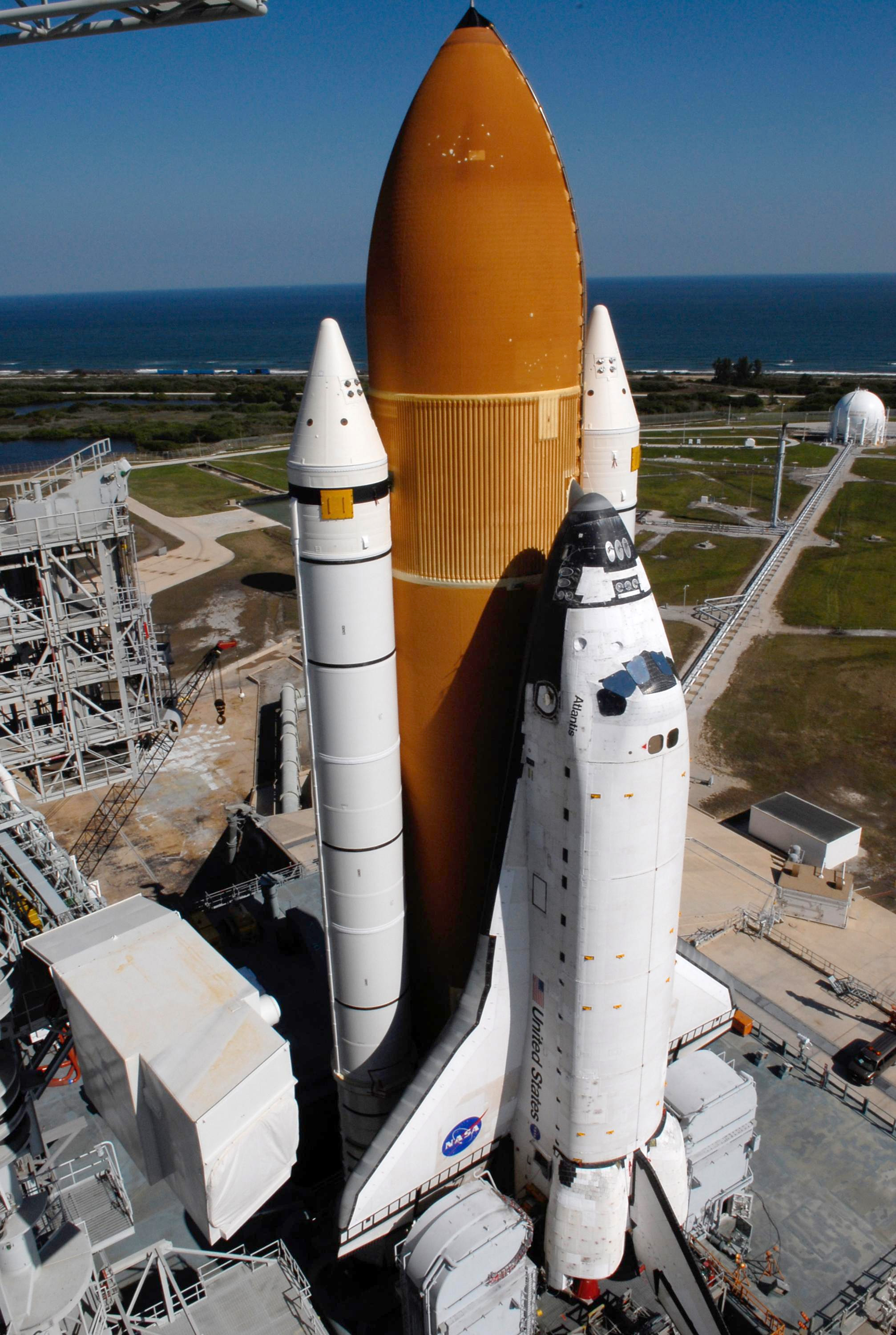 Breaking waves of the Atlantic Ocean are the backdrop for Space Shuttle Atlantis upon its arrival at Launch Pad 39A. First motion out of the Vehicle Assembly Building was at 4:43 a.m. EST, and the shuttle was hard down on the pad at 11:51 a.m. Rollout is a milestone for Atlantis' launch to the International Space Station on mission STS-122, targeted for Dec. 6.